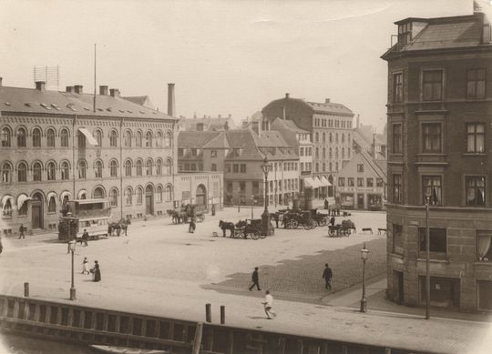 Christianshavns Torv in the late 19th century with the now demolished Christianshavns Straffeanstalt (Kvindefængslet) where Lagkagehuset stands today